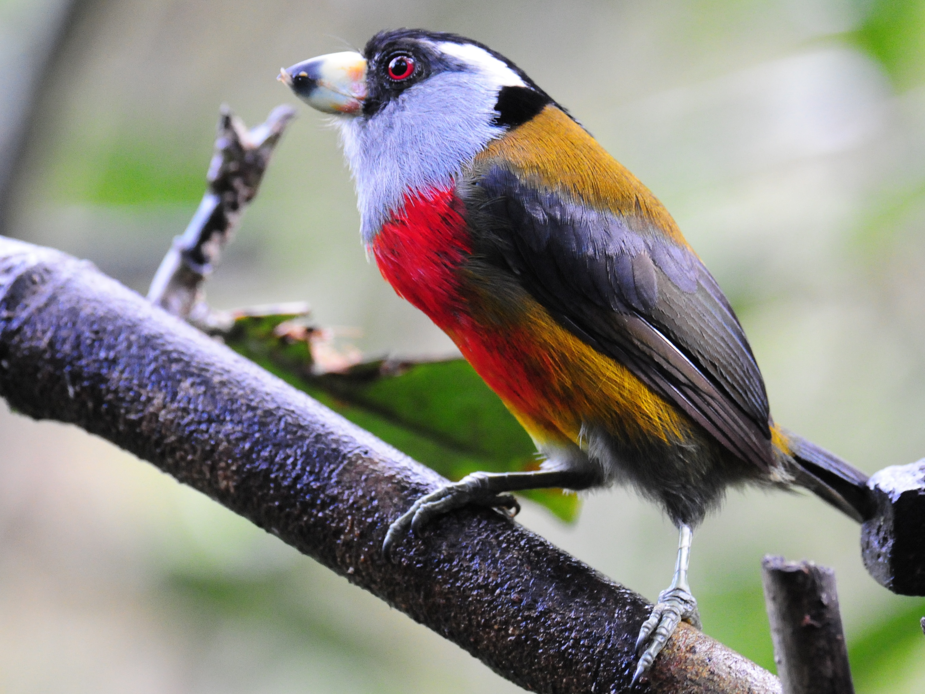 A Toucan Barbet in Mindo, Ecuador.